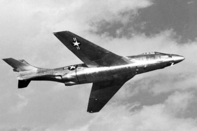 The U.S. Air Force prototype McDonnell XF-88A Voodoo (s/n 46-526) which first flew on 20 October 1948.